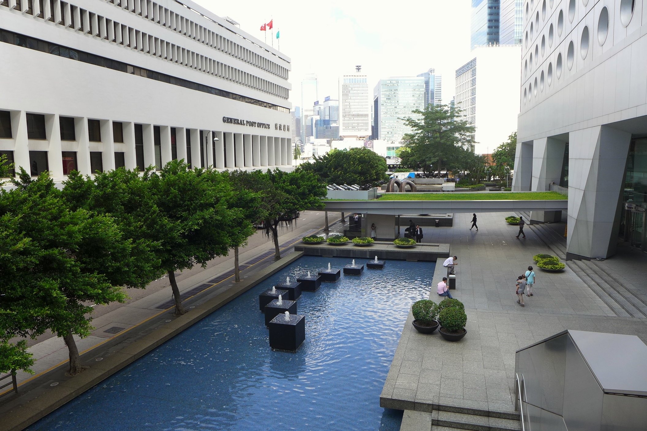 Connaught Garden